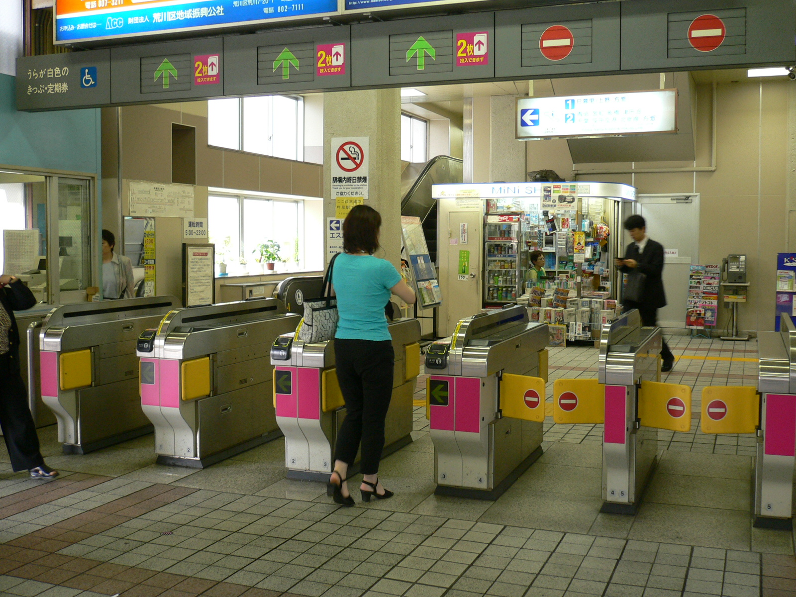 Machiya Station(町屋駅) in Arakawa W, Tokyo M.